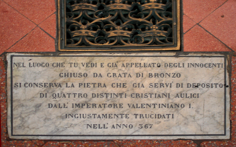 Plate on the floor in saint Stephen's church in Milan (Italy), commemorating four christian martyrs killed in year 367 under Emperor Valentinian I.